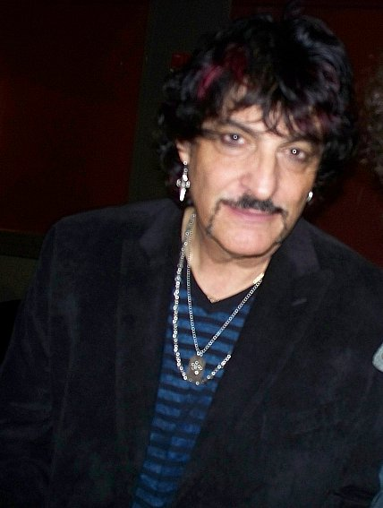 Photo of Carmine Appice, drummer of The Vanilla Fudge, and Beck, Bogert, and Appice. Here he is attending a reunion concert of The Vanilla Fudge reunion tour at the Regent Theater in Arlington, Massachusetts on March 26, 2011.